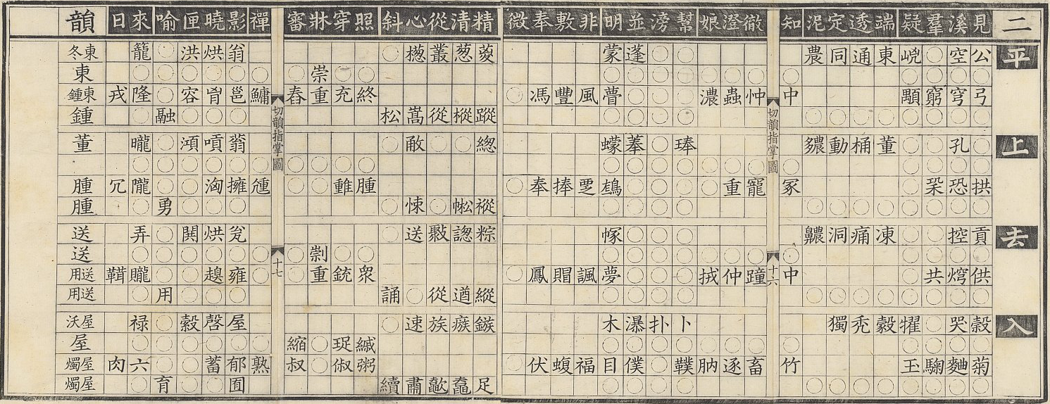 Table 2 of the Qièyùn Zhĭzhǎngtú (切韻指掌圖), original dated 1203. This edition was published by the London Missionary Society in the 19th century, and is held by the National Library of Australia. (Library's copyright statement)